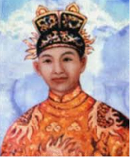 Emperor Minh Mang